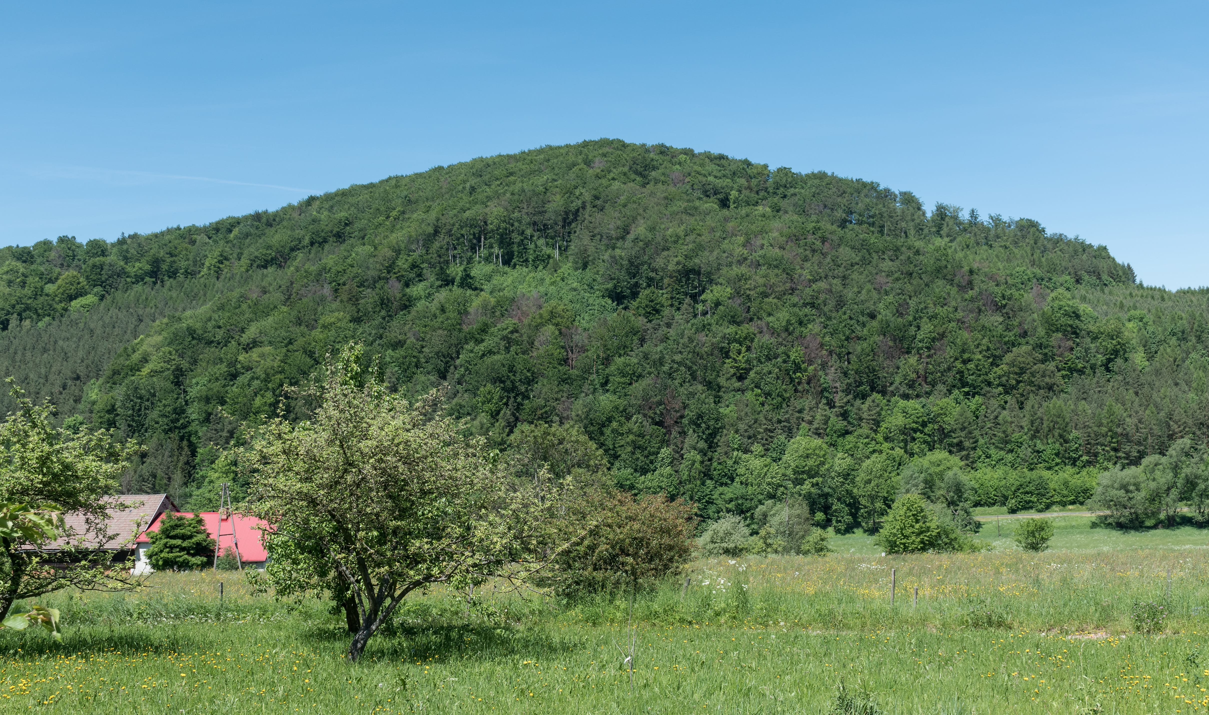 Słupiec, Krowiarki, Sudetes